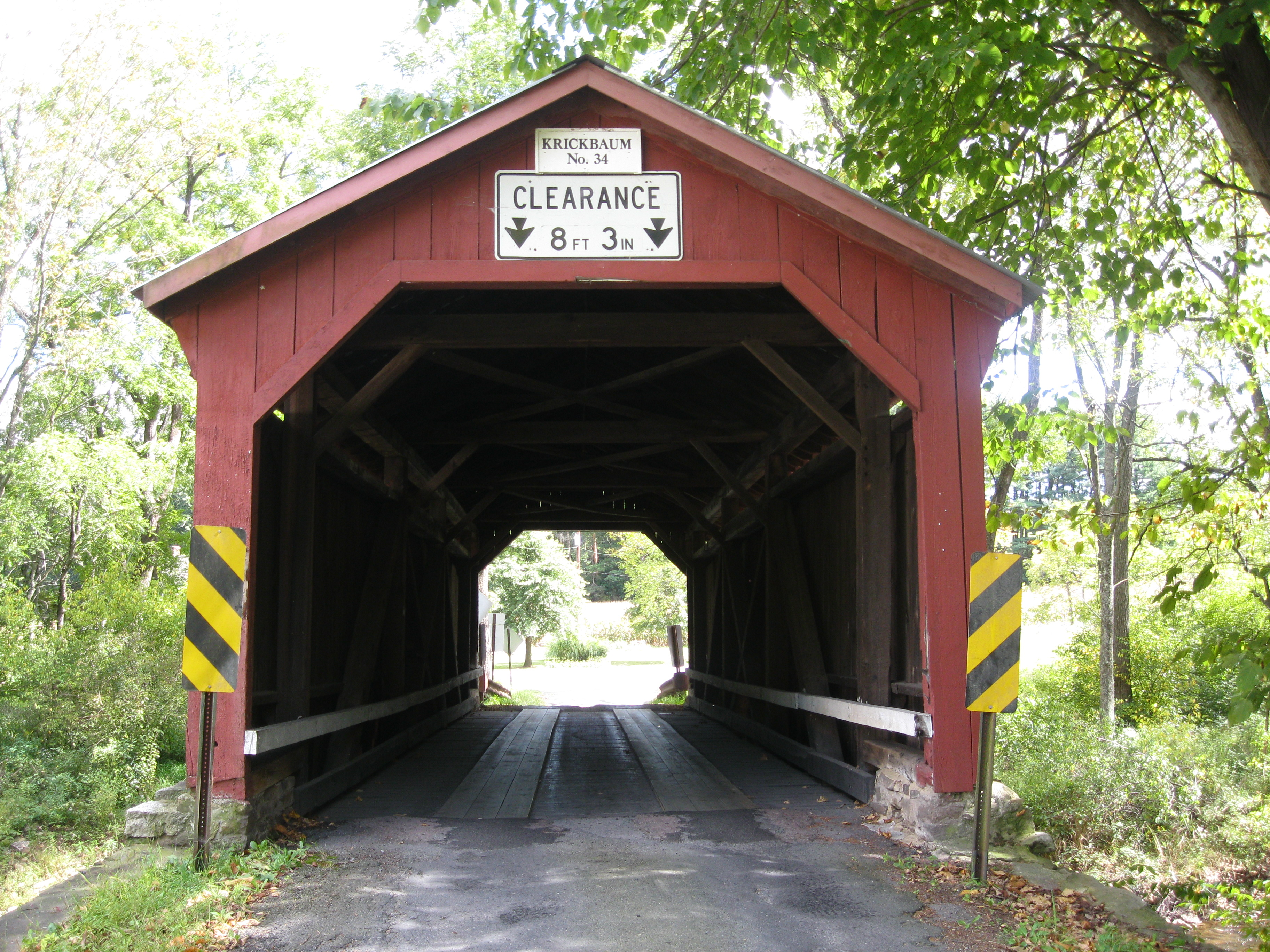 Kreigbaum Covered Bridge built in 1875 over the South Branch of Roaring Creek between Cleveland Township in Columbia County, Pennsylvania and Ralpho Township in Northumberland County, Pennsylvania, in the United States